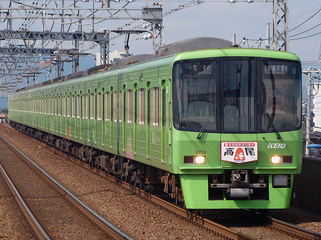 Keio 8000 series EMU set 8713 in special all-over green livery